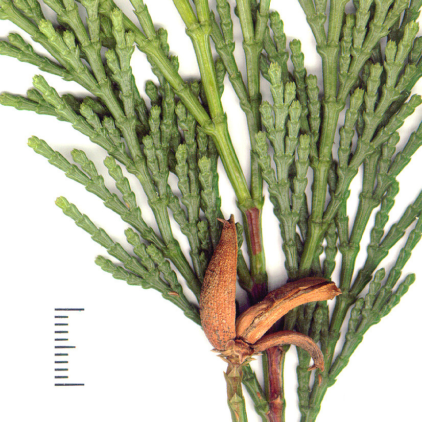 Calocedrus decurrens cone